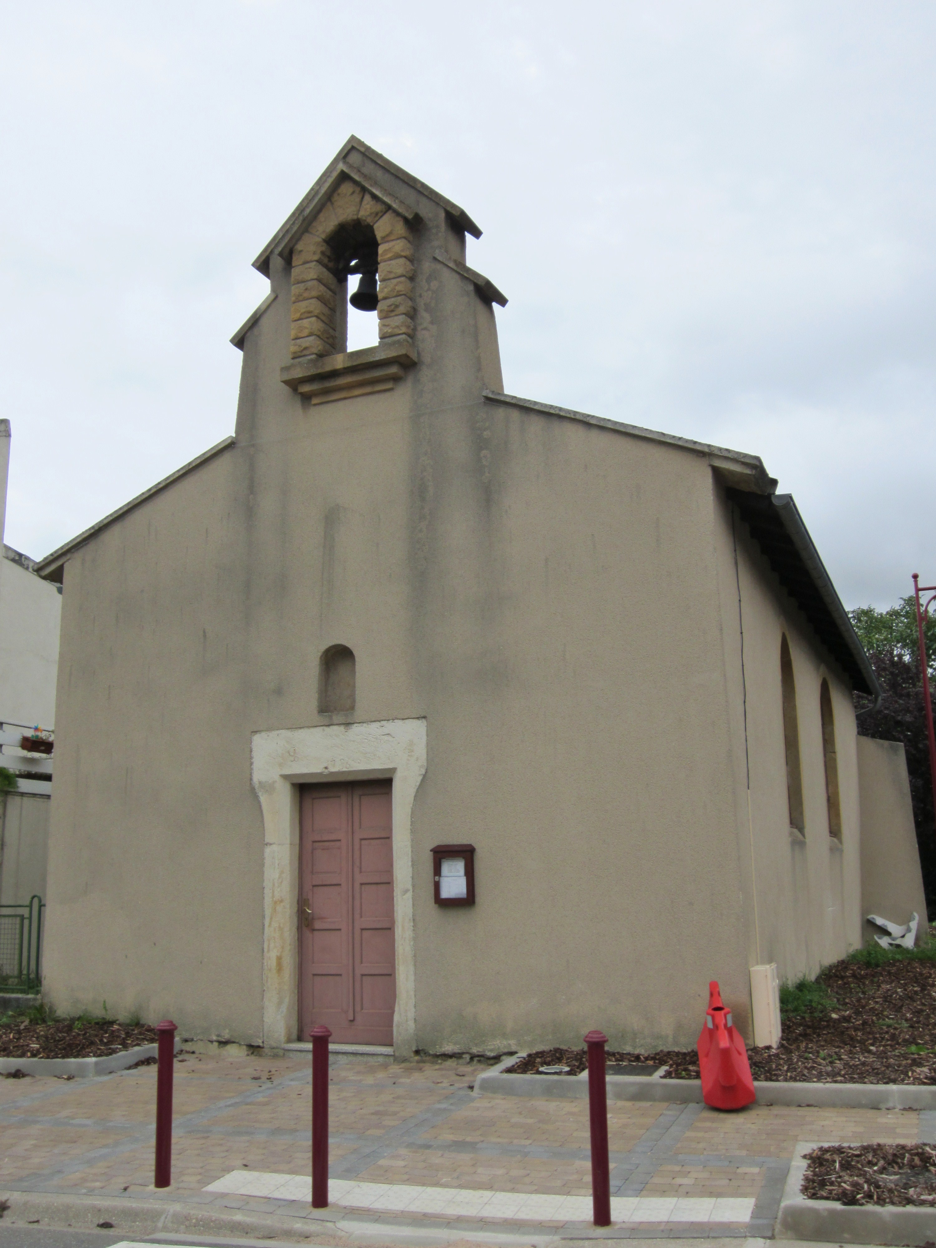 Description chapelle Imeldange Date8 September 2011Sourcemon appareil photoAuthorAimelaimePermission(Reusing this file) chapelle Imeldange